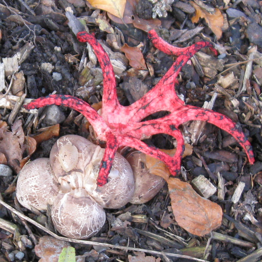 Clathrus archeri (cropped)